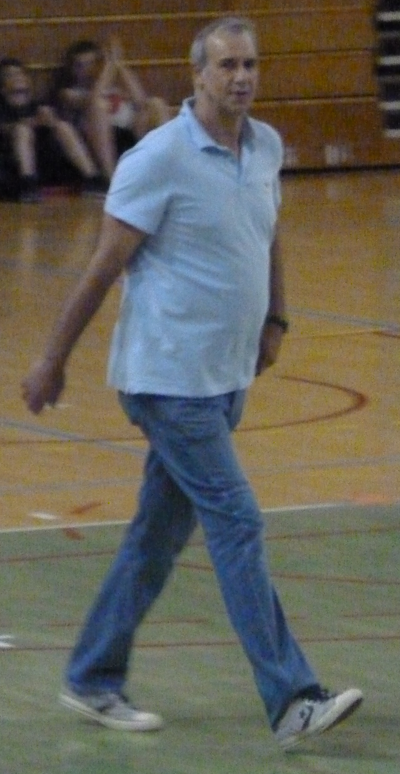 Philip Szanyiel, French basketball player, at the U16 boys international tournament in Riom, Puy-de-Dôme, France.